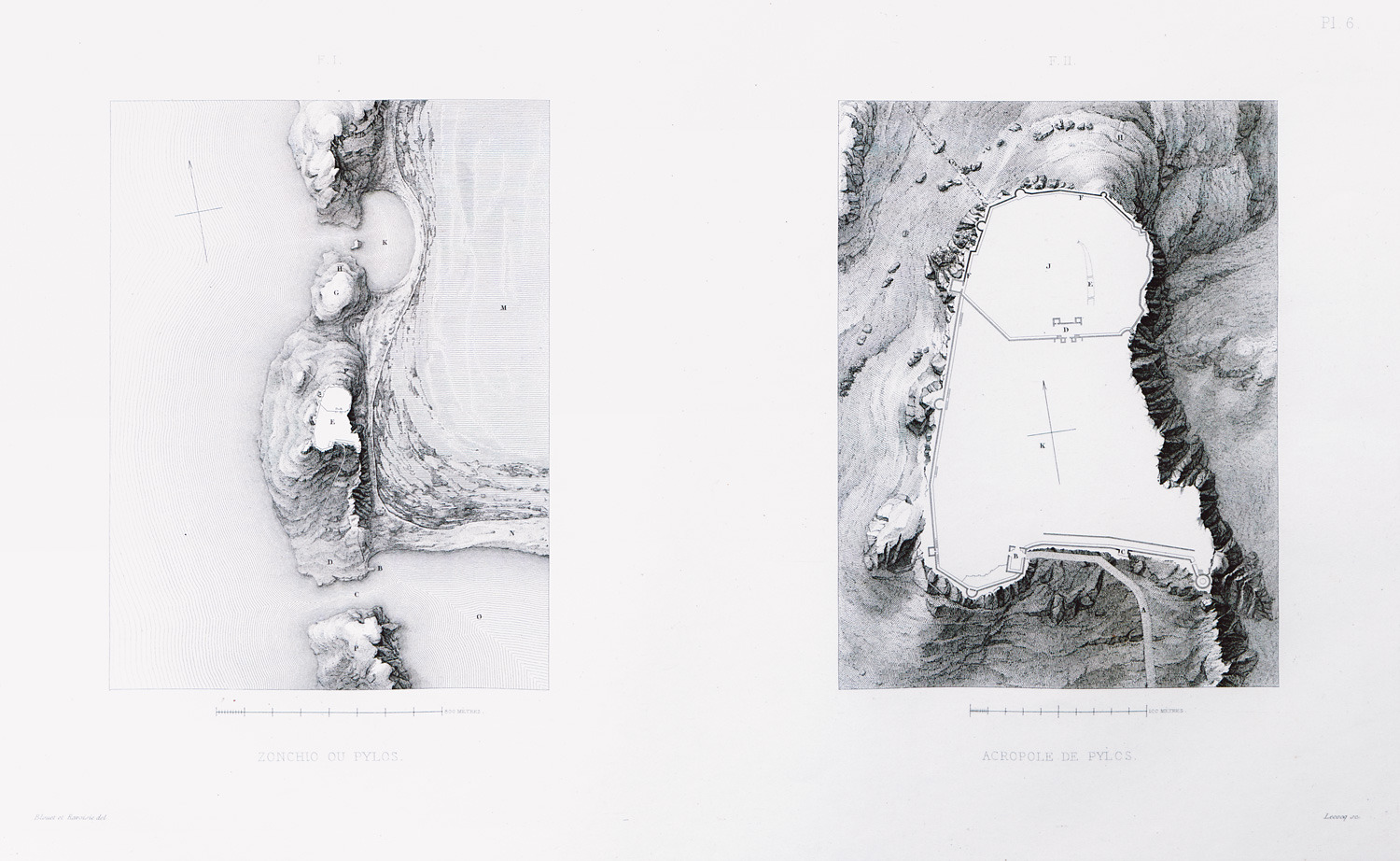 Guillaume-Abel Blouet. Expédition scientifique de Morée, Ordonnée par le Gouvernement français: Architecture, I-VI, Paris, Firmin Didot, 1831-1838.